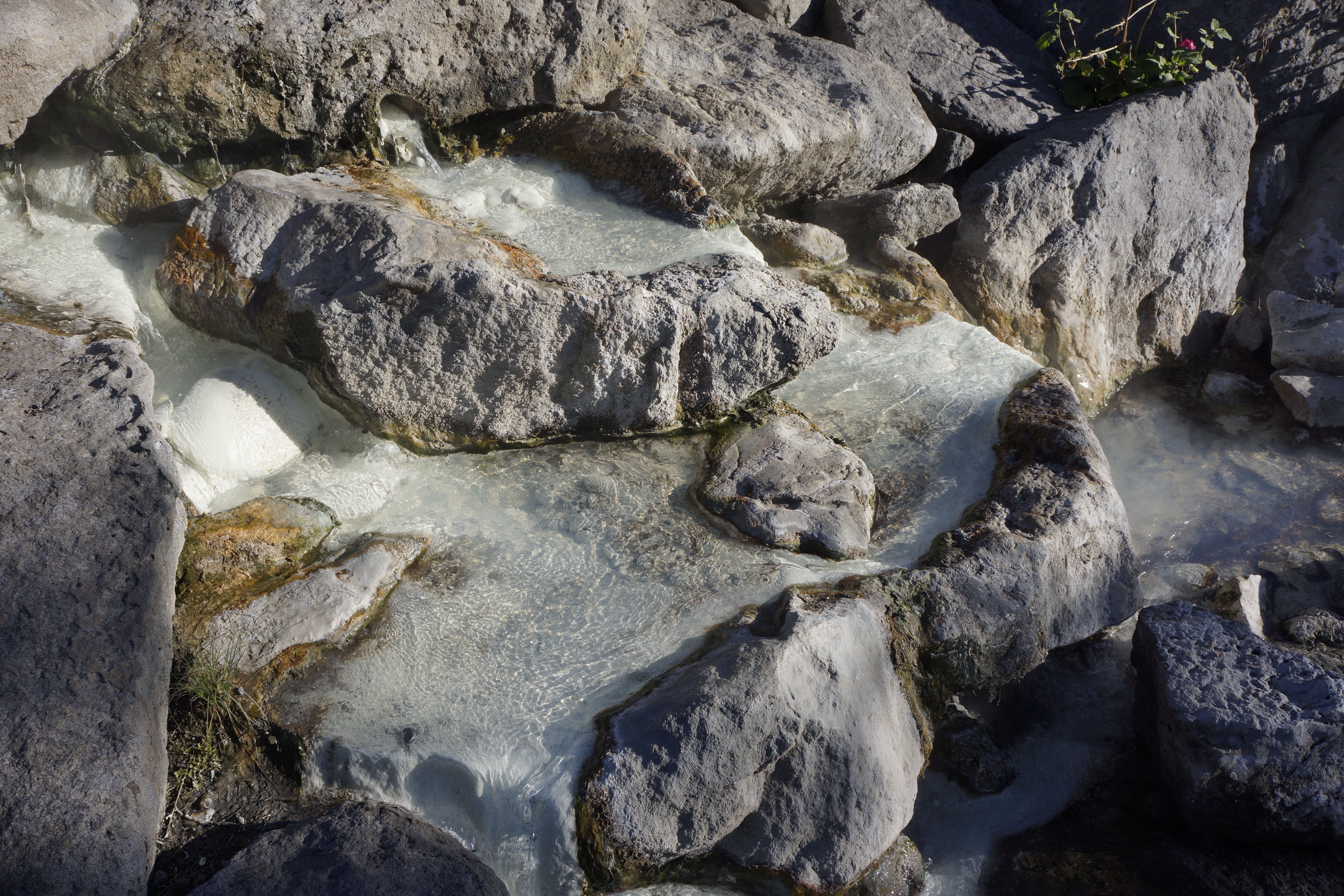 Hot spring, Thermal spring, Geothermal spring